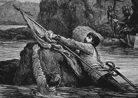 Contemporary depiction of Melville and Coghill saving the queen's colour of the 1st battalion, 24th regiment at Isandlwana